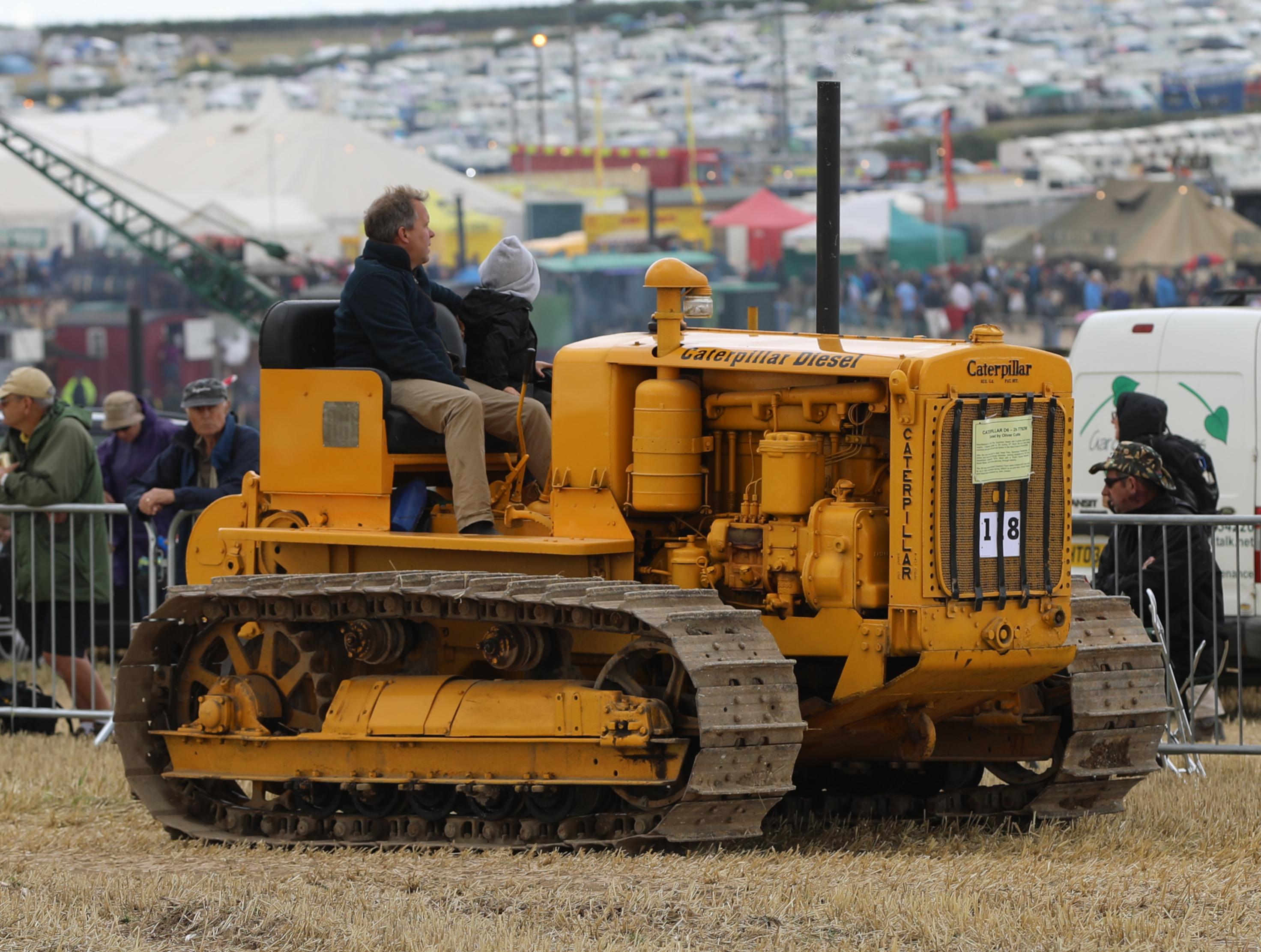 Photo of a 1940 Caterpillar D6 used to pull timber in the new forrest during ww2. 2018 GDSF program number 118